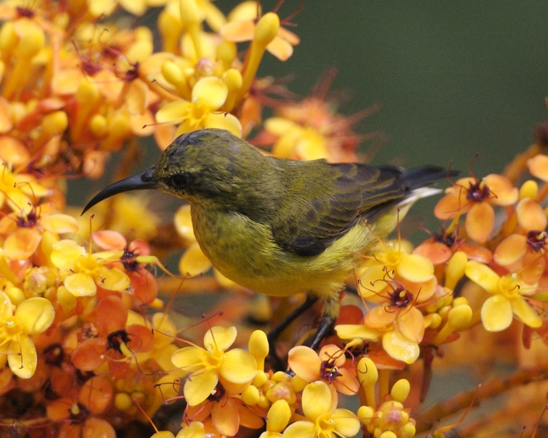 Olive-backed Sunbird (Cinnyris jugularis) female spp Cinnyris jugularis ornatus Central catchment area, Singapore 28th. January 2008 ID features 1) down curved bill 2) upperparts dull olive brown 3) underparts all yellow 4) white on tail 690V0657